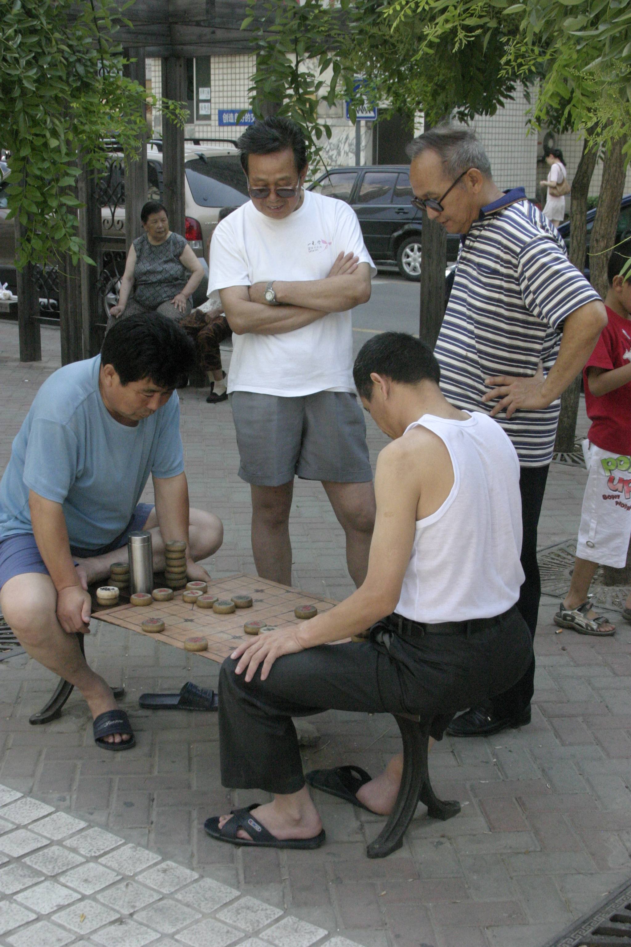 Chinese culture – Chinese chess is commonly played outside in yards and parks by the mid- to old-aged (people pictured may be Korean since it was taken in a Beijing housing complex populated largely by Korean people). Taken by David Maximillian Waterman on 2005/07/10 using a Canon 10D/EF 28-135mm 1:3.5-5.6 IS.